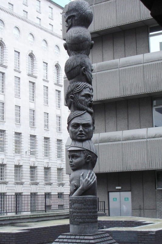 Sculpture 'Seven Ages Of Man'-Queen Victoria Street-London